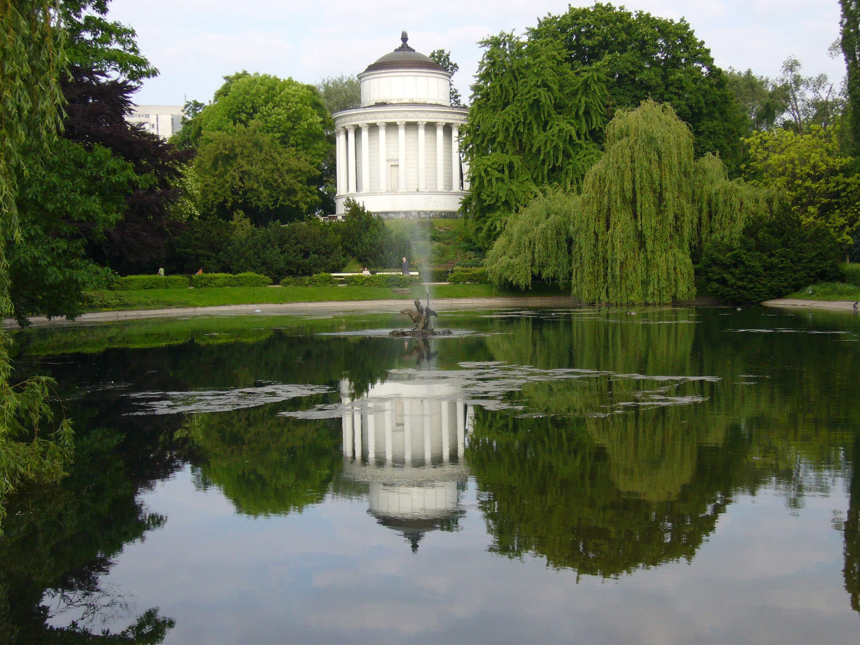 Reservoir and lake in Saxoonian Garden in Warsaw, Poland